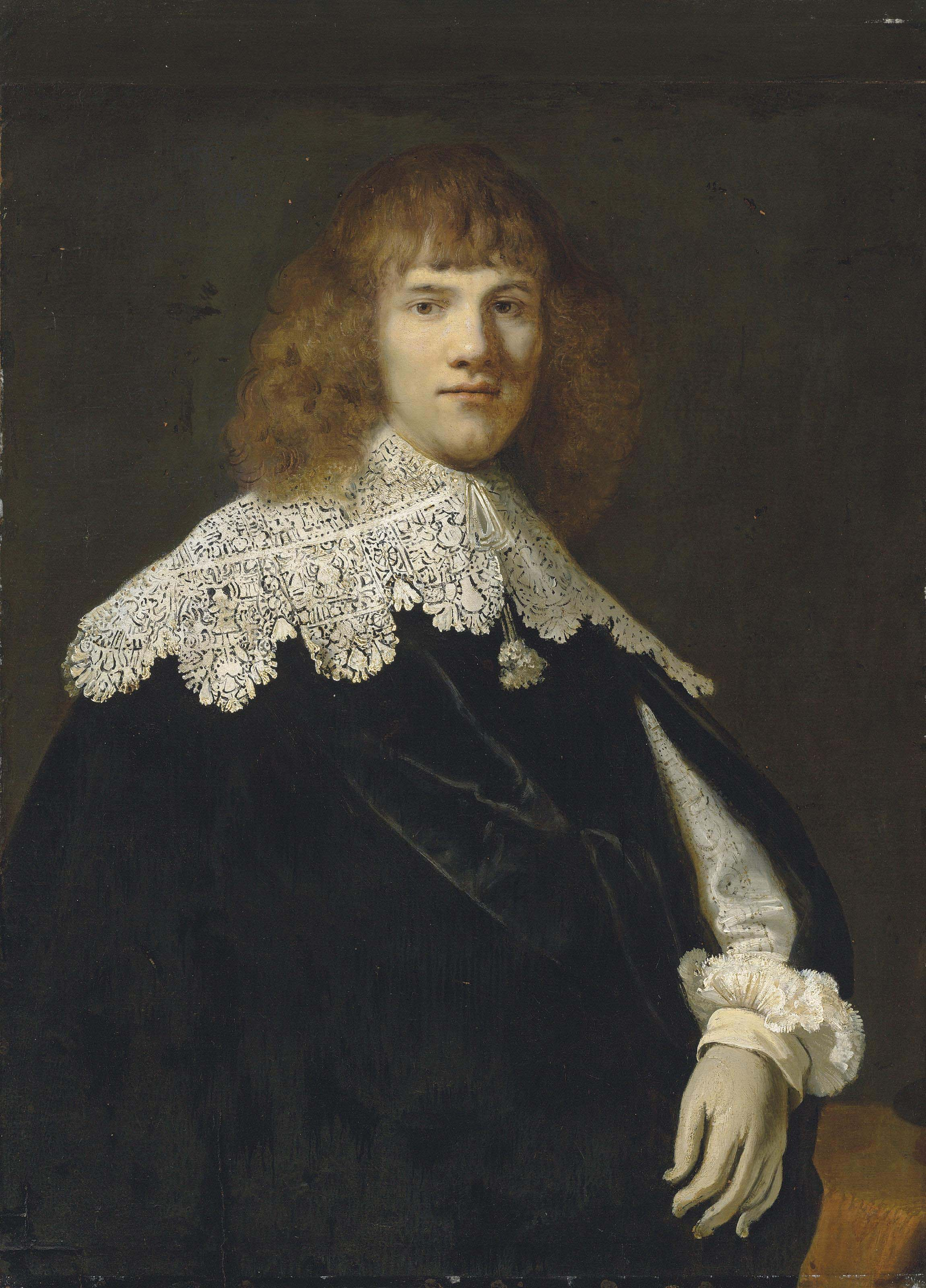 This image shows the artwork in its state of 2015, with a later addition at the top, and severe overpaintings on background and cloak. The addition was removed while at Christie's and thrown into a waste bin, the old image was erroneously put into the sale catalogue of December 9th, 2016.